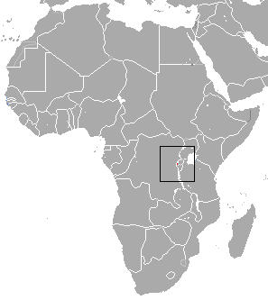 Rhinolophus hilli range